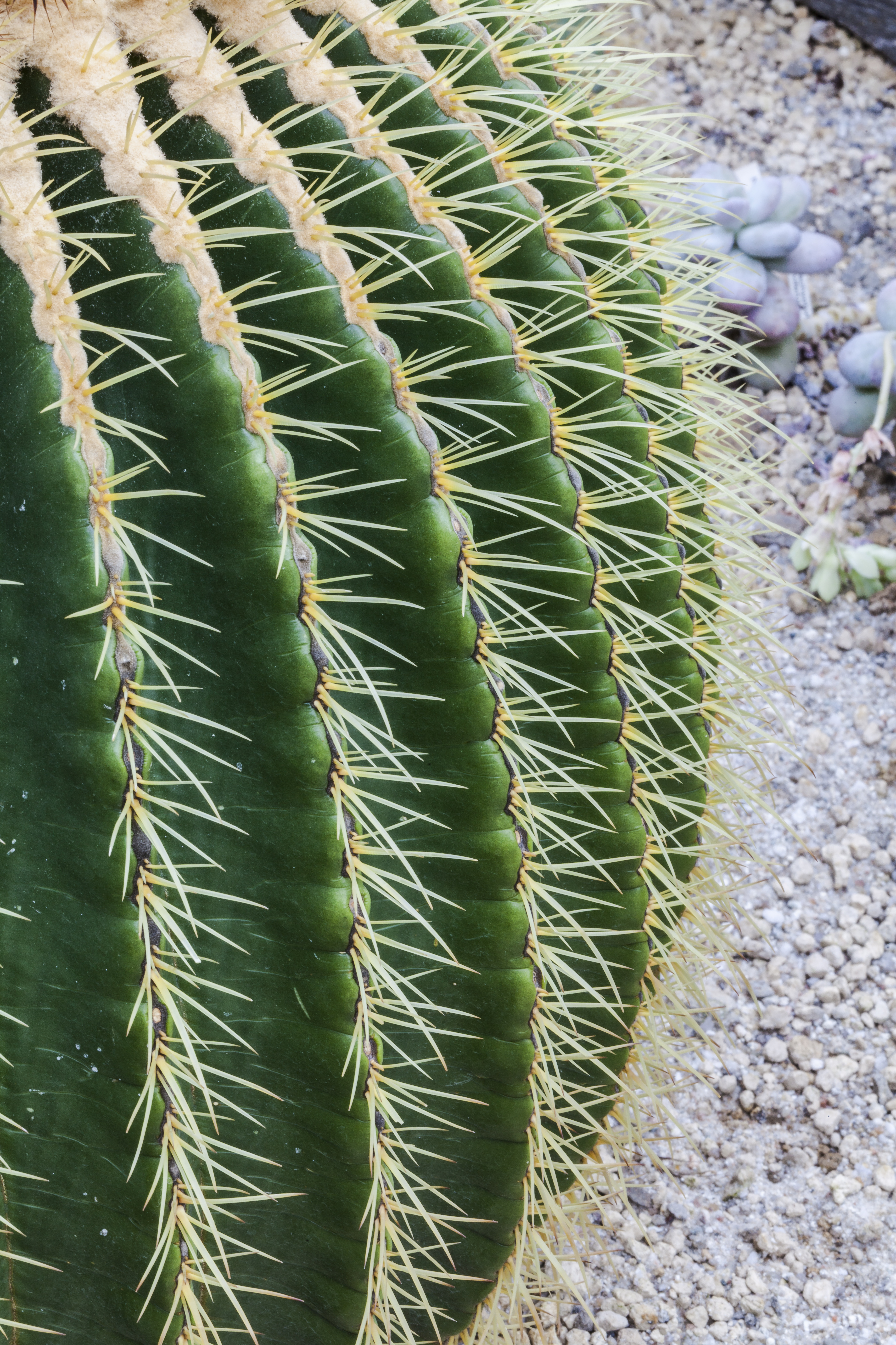 Golden Barrel Cactus (Echinocactus grusonii), Munich Botanical Garden, Germany